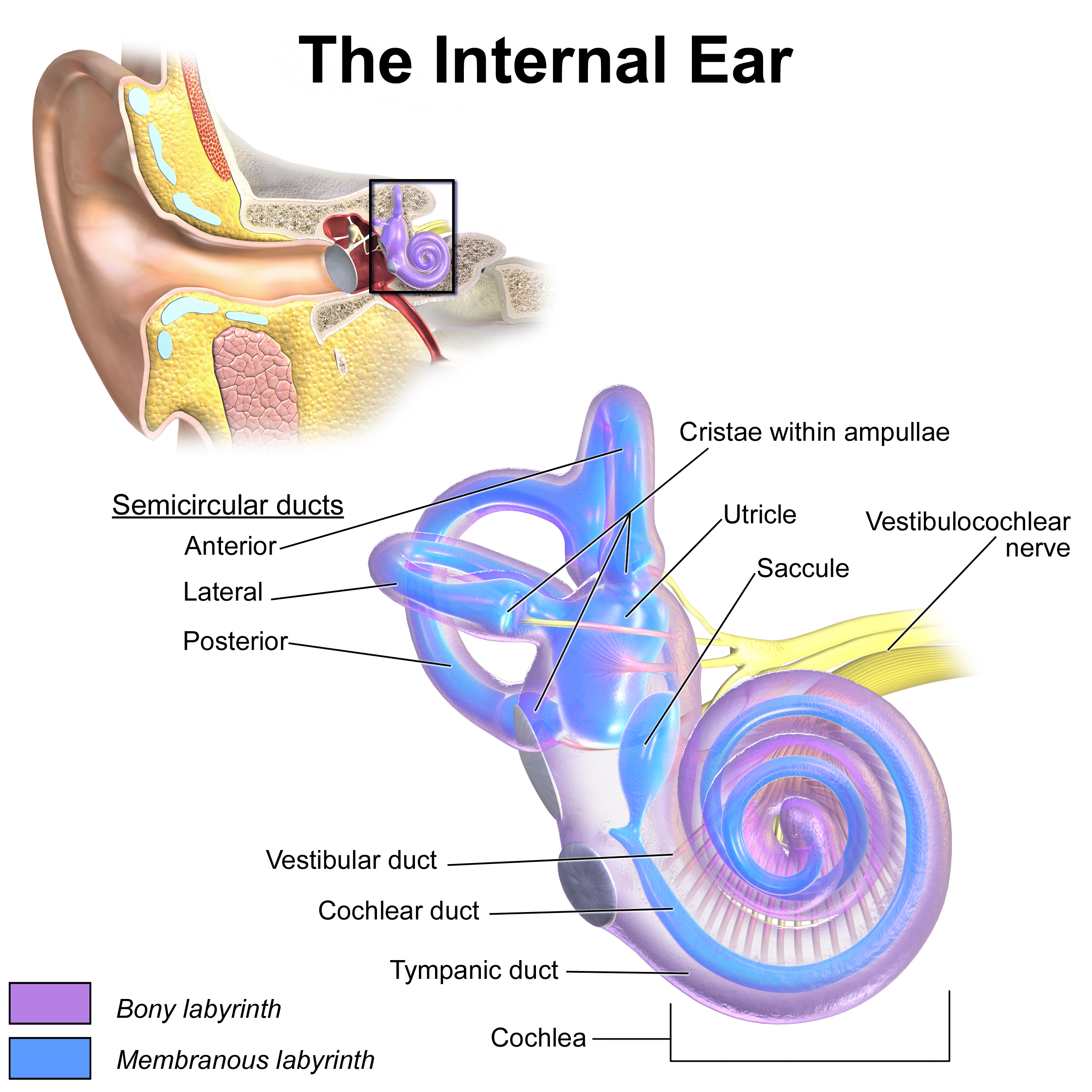 Internal Ear Anatomy. See a related animation of this medical topic.